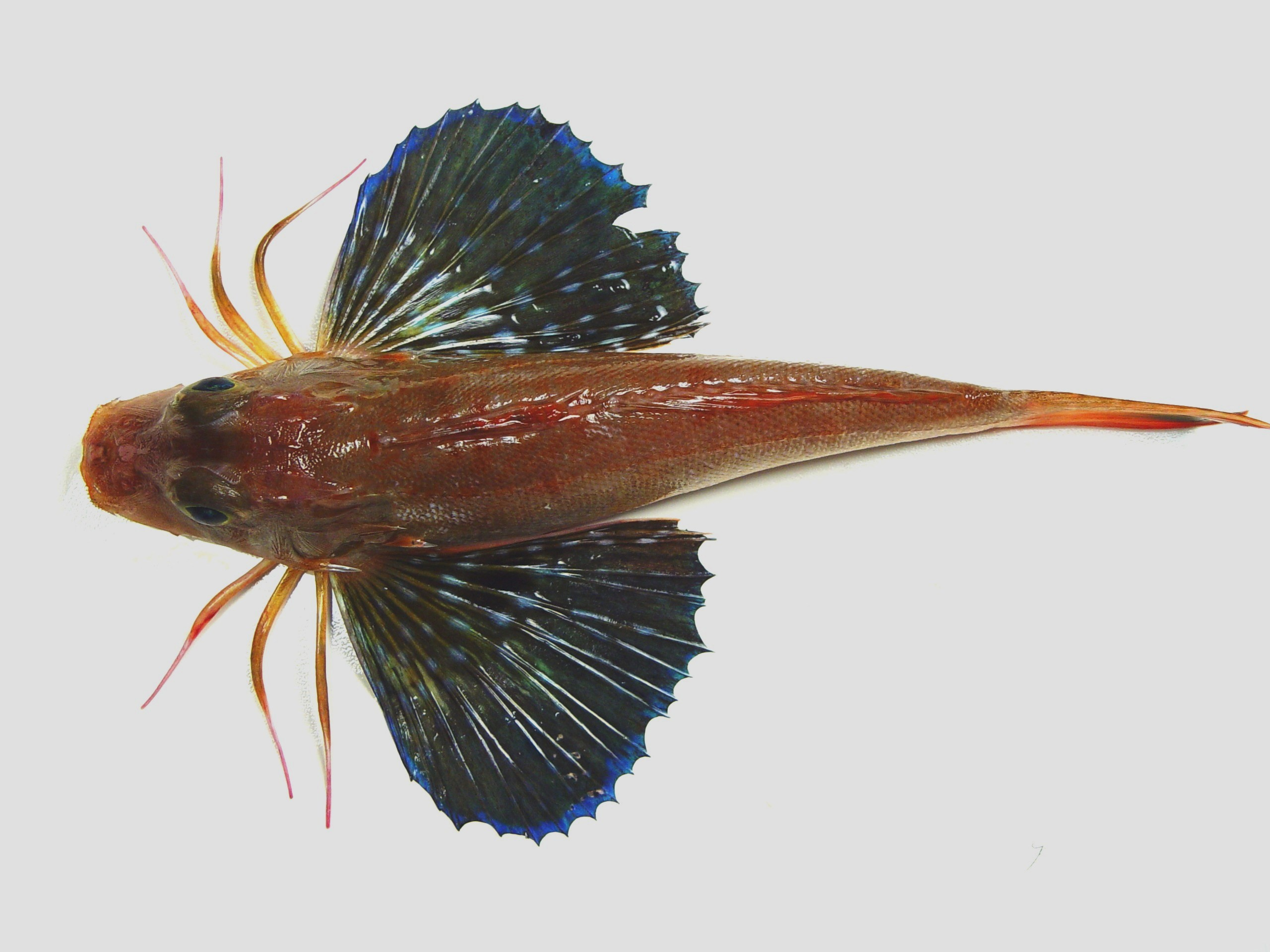 Bigeye searobin ( Prionotus longispinosus ). Gulf of Mexico.